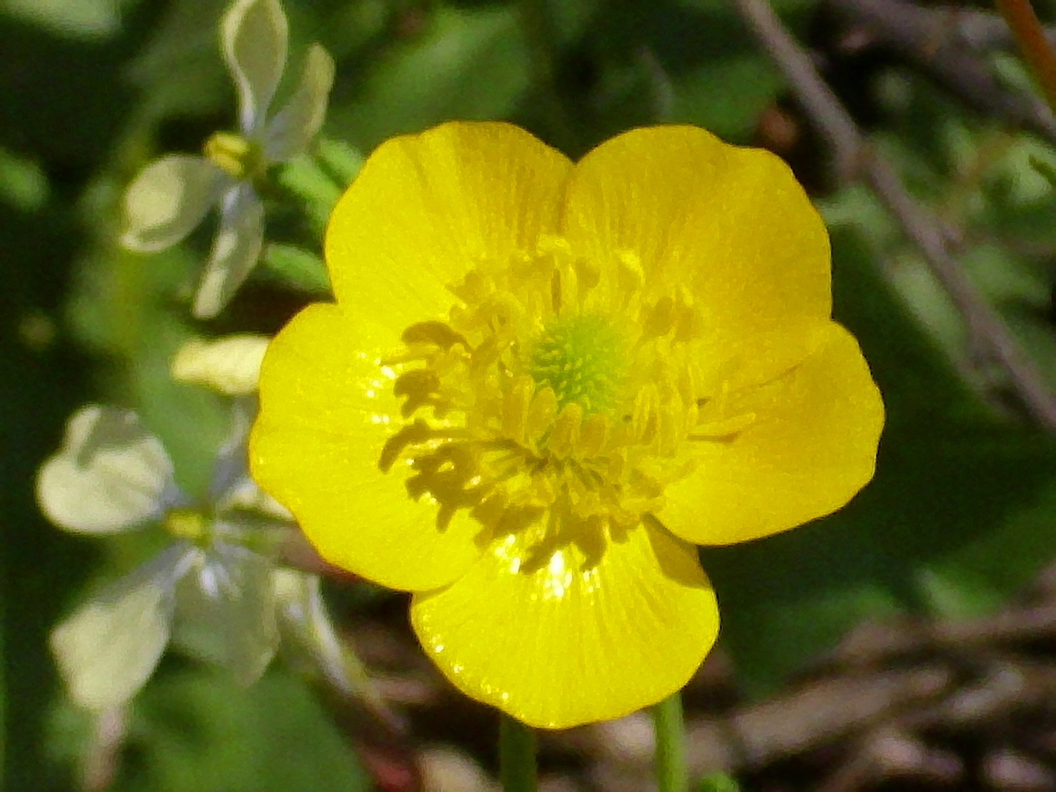 Ranunculus ophioglossifolius close up, Sierra Madrona, Spain